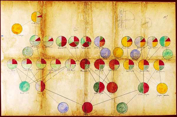 Family tree for the Rougon-Macquart. Each family has a color, and each child is influenced by one or more families.